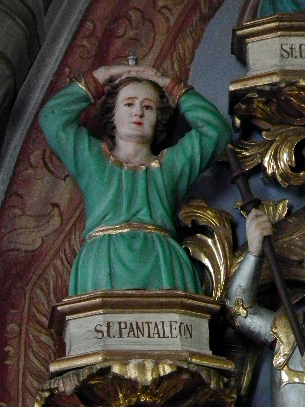 Church of Saint Giles Native nameSt. Ägidius/Chiesa di San EgidioLocationMitterolang/Valdaora di Mezzo, South Tyrol, ItalyCoordinates46° 45′ 36.68″ N, 12° 01′ 48.68″ E